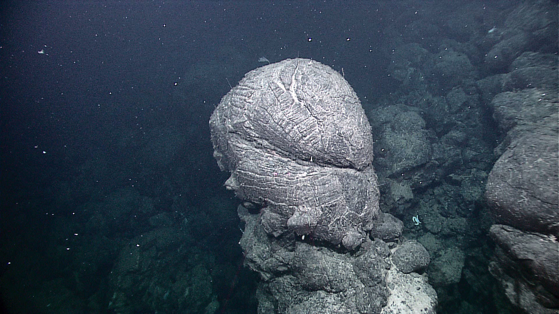 A pillow on a pedestal in a highly fissured area of seafloor apparently close to the locus of spreading along the Galapagos Rift. NOAA Okeanos Explorer Program, Galapagos Rift Expedition 2011. 21 July 2011.